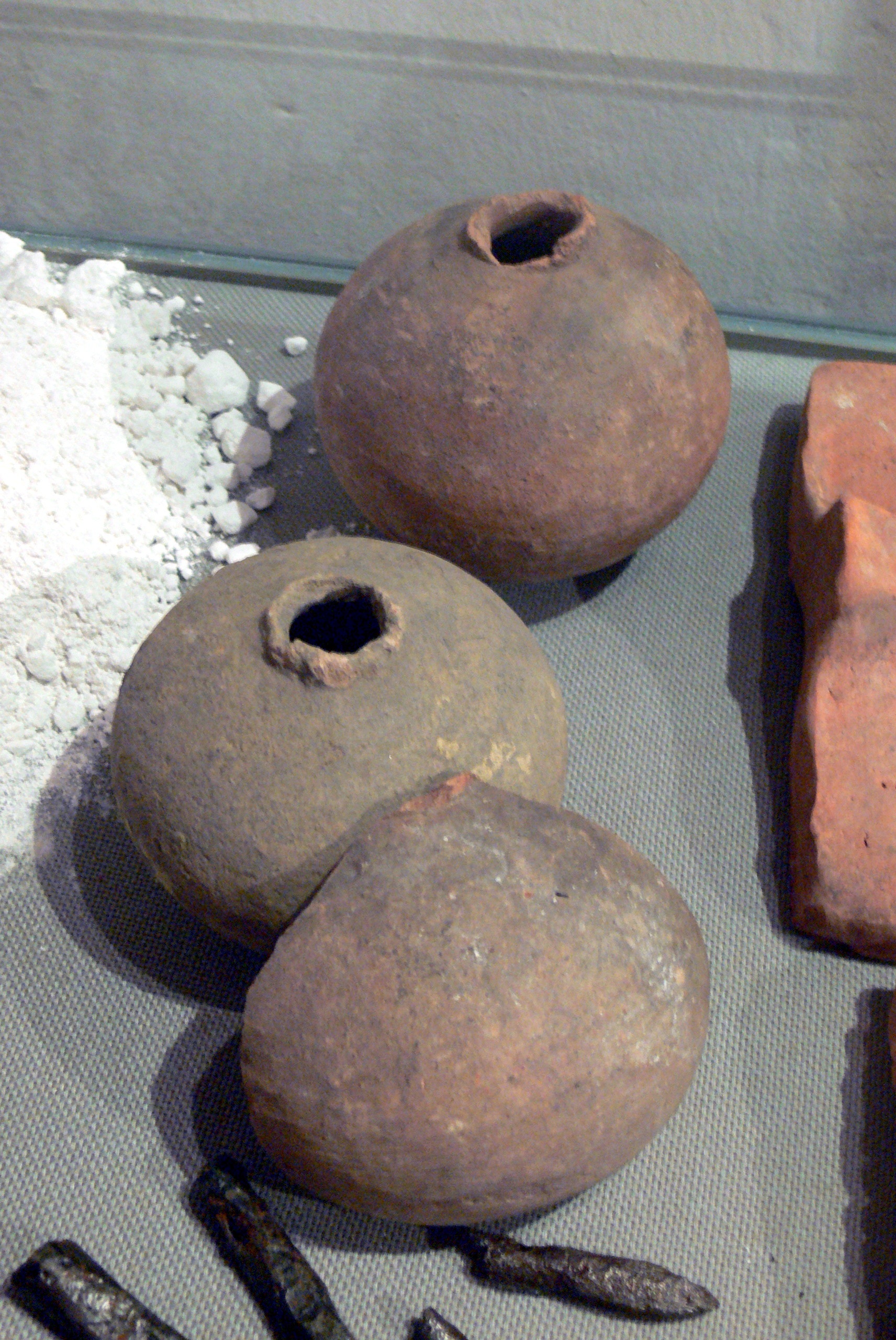 Medieval clay grenades at Oberhausmuseum, Veste Oberhaus, Passau Germany.